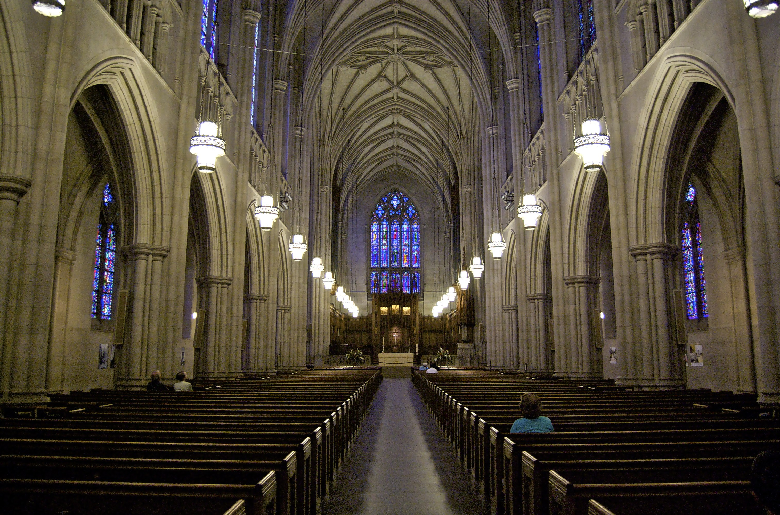 Iterior of the Duke University Chapel